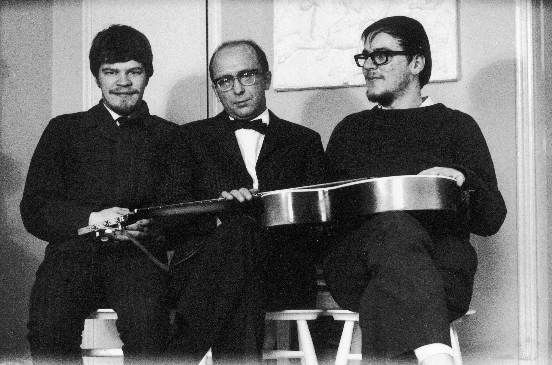 Photograph of the Finnish musicians M. A. Numminen and Unto Mononen and musicologist Pekka Gronow.